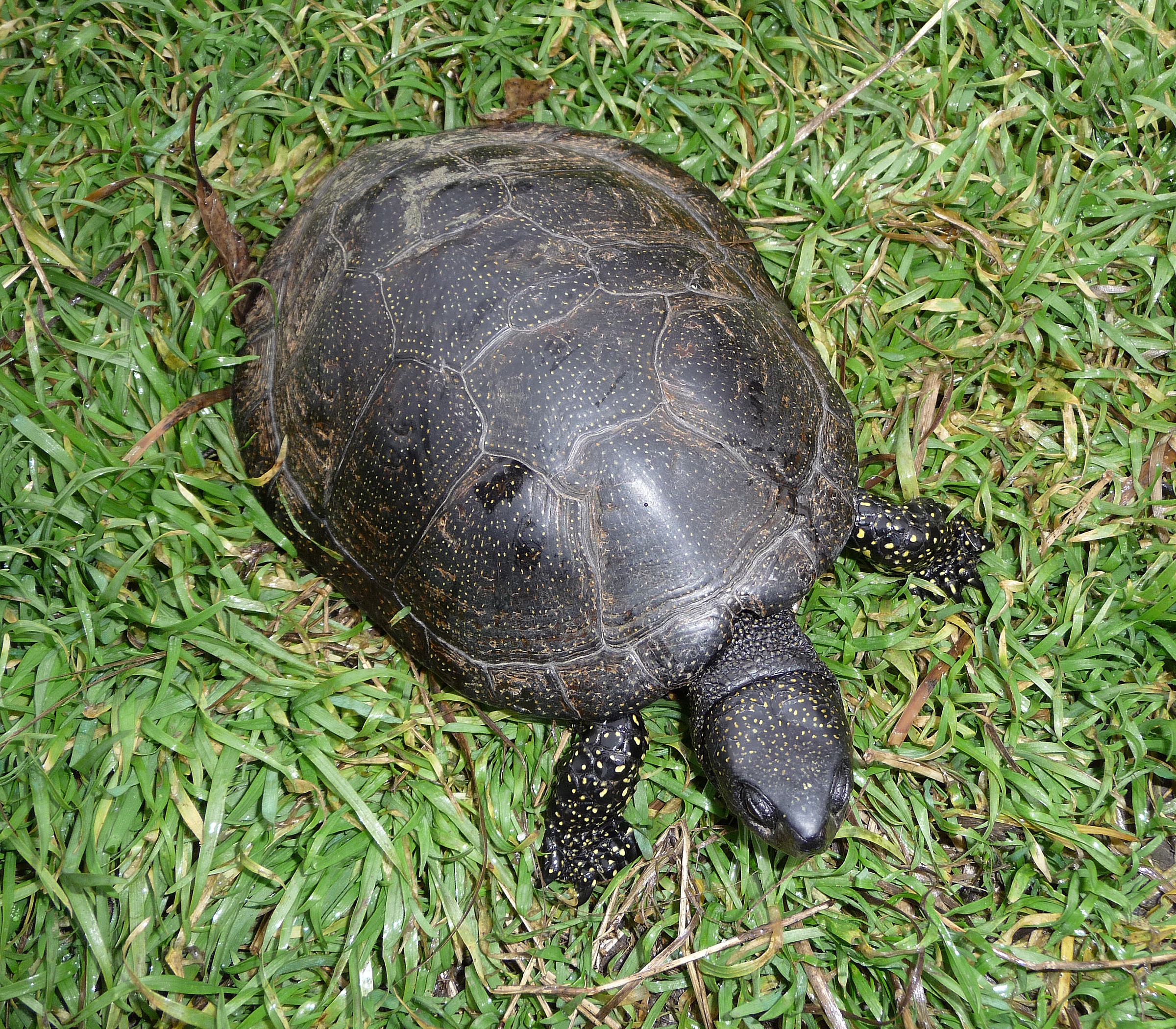 European pond terrapin (also European pond turtle or European pond tortoise). Photo taken in wild. Ukraine.